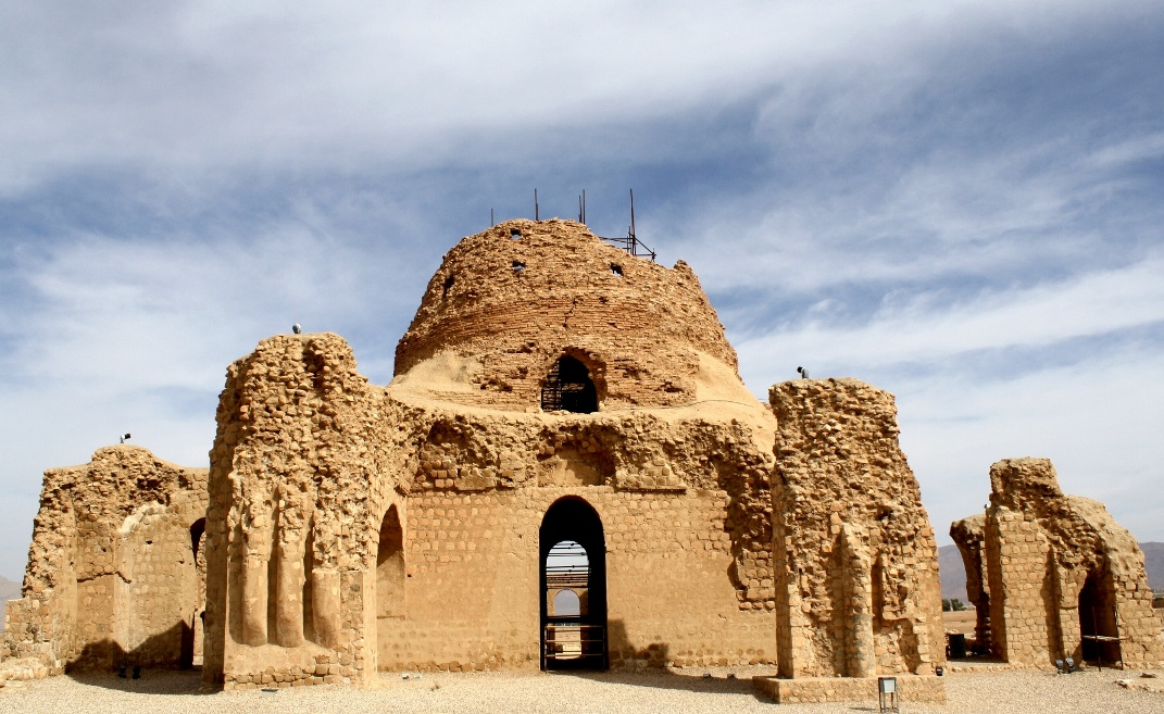 Iran,Sarvestan Palace, South Elevation